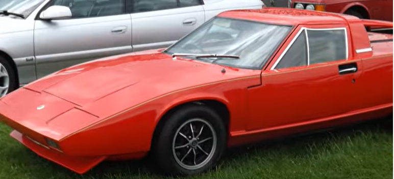 GS Lotus Europa Twin Cam at Tatton Park Classic Car Spectacular, 5th June 2017.